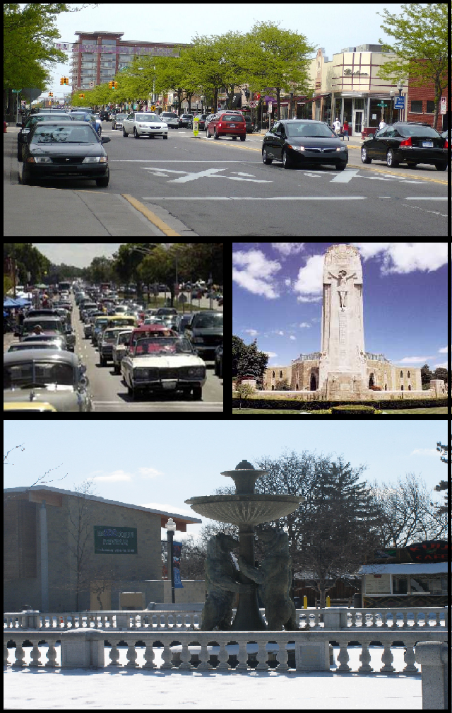 Montage of Royal Oak Top - Downtown Royal Oak Middle Left - Woodward Dream Cruise Middle Right - National Shrine of the Little Flower Bottom - Fountain at the Detroit Zoo